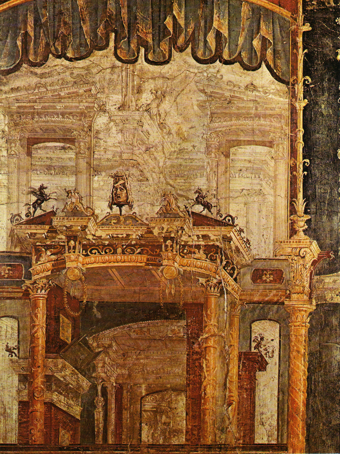 Fresco from Herculaneum, Insula Orientalis, Gymnasium - fantasy theatrical set design, with aedicula-shaped portal, metallic spirals, rampant Pegasi, and shelf with theatrical mask. Below is a colonnaded building with broken tympanum. IV Pompeian Style Wandmalerei, Herculaneum